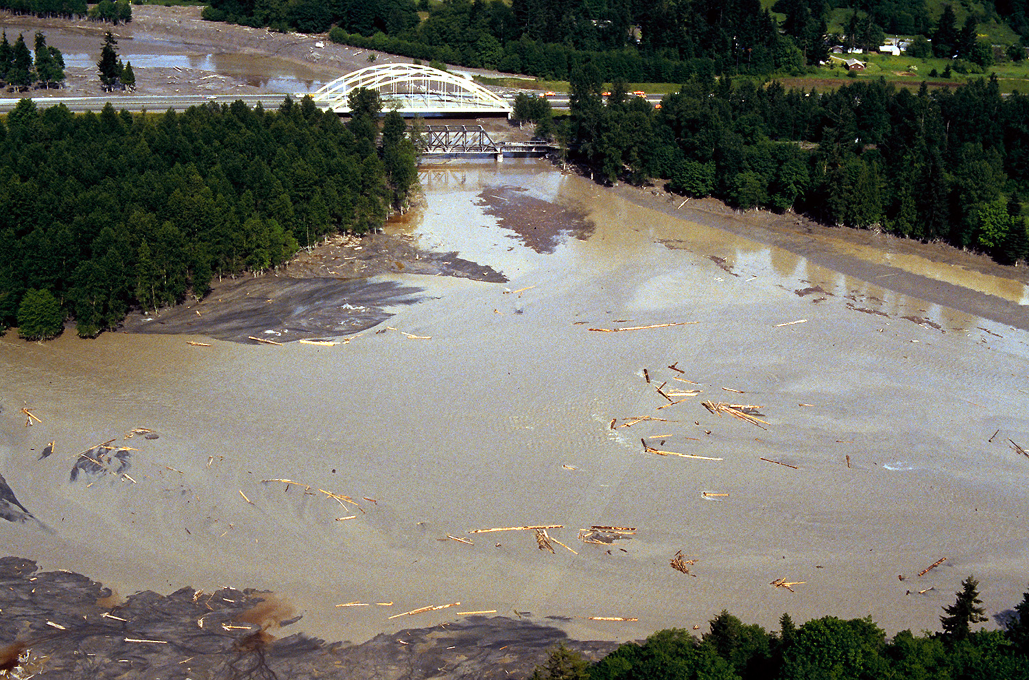 The mouth of the Toutle River in flood near Castle Rock, Washington. The Interstate-5 bridge is in the background. The photo was taken prior to the 1980 eruption of Mt. St. Helens.